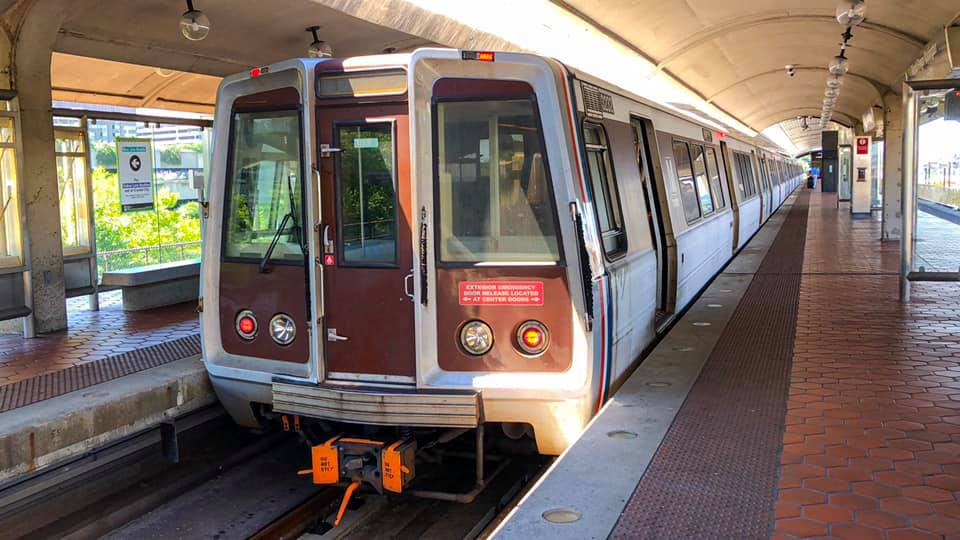 WMATA Rehab Breda 3000 Series at Reagan National Airport on the center track